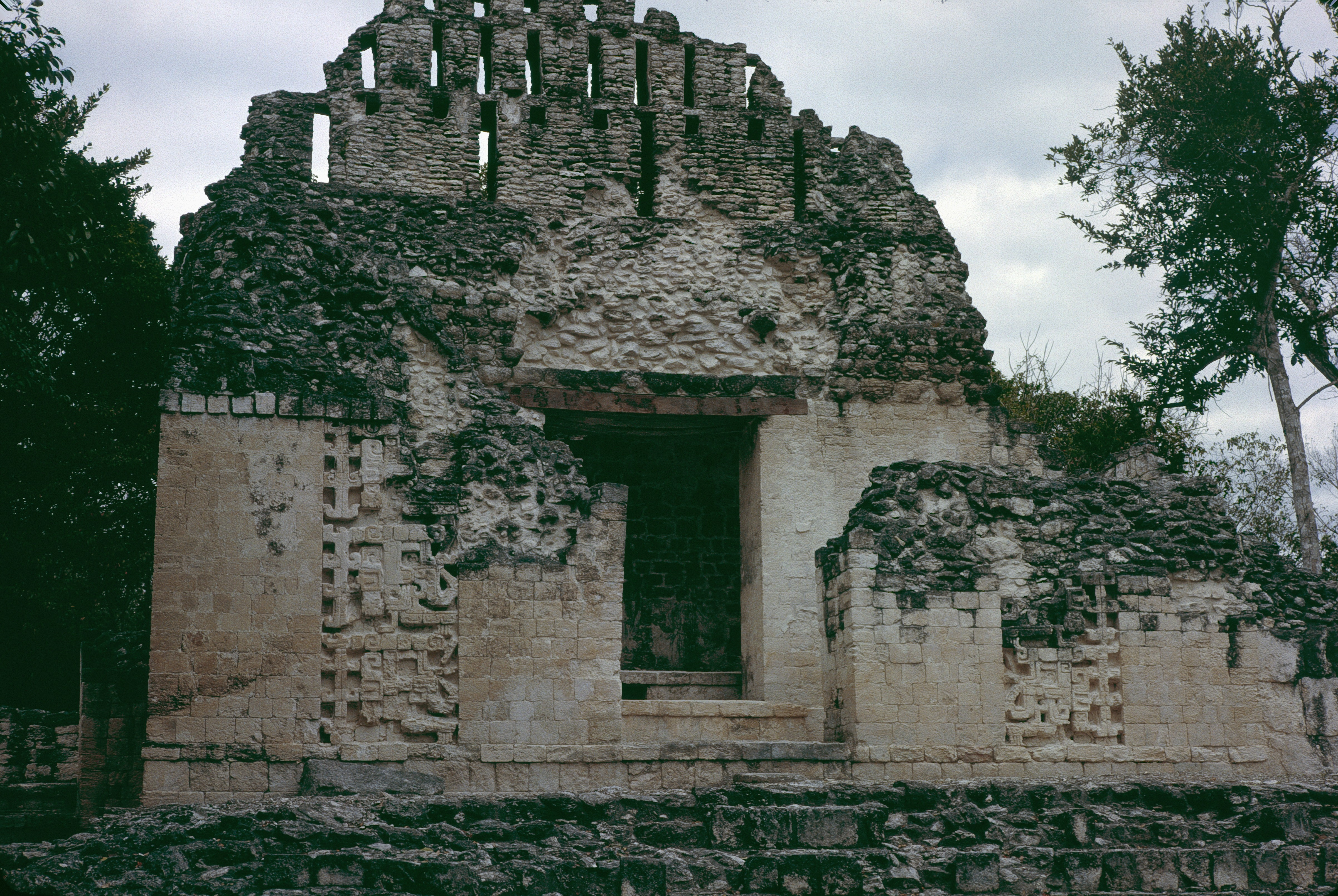 Chicanna, Campeche, Mexico: Structure VI